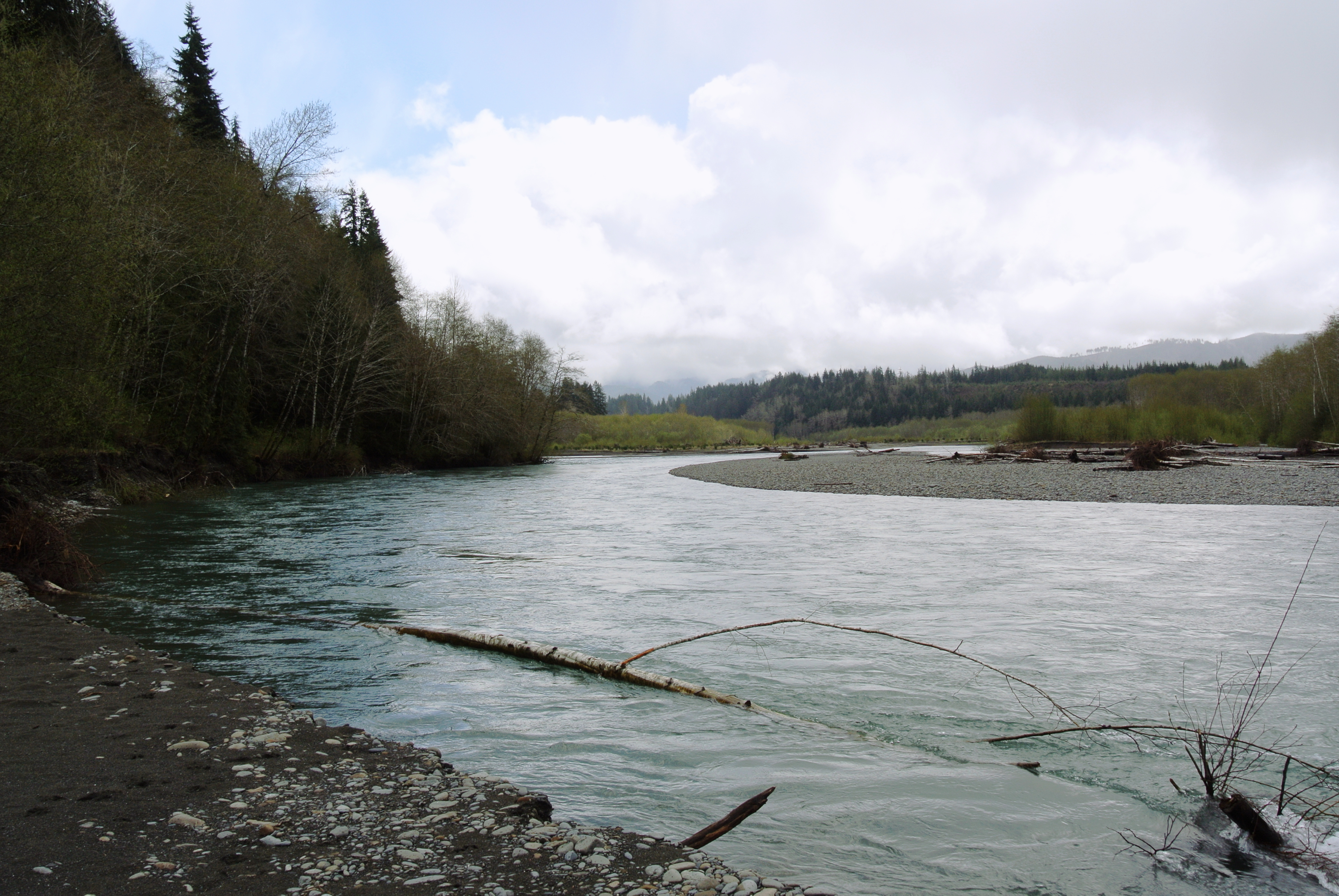 The Hoh river in spring. Nikon 1 V1 + 1 Nikkor VR 10-30mm f/3.5-5.6